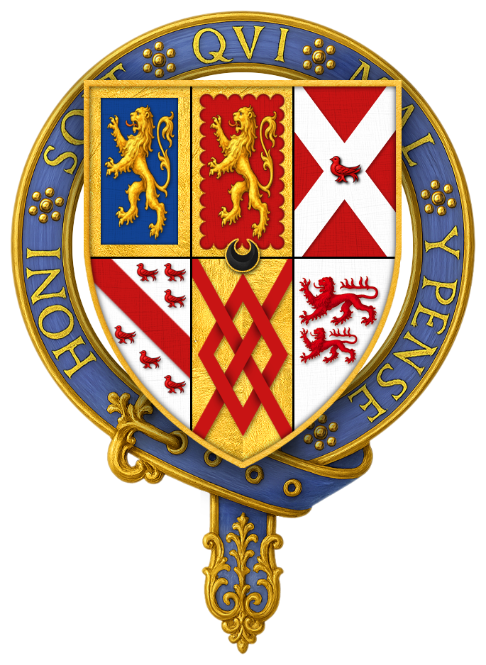 Coat of arms of Sir Gilbert Talbot, KG Blazon: Quarterly of six, 1st, azure a lion rampant within a bordure or (for Talbot ancient i.e. Montgomery); 2nd, gules a lion rampant within a bordure engrailed or (for Talbot i.e. Rhys ap Griffith); 3rd, gules a saltire argent, a martlet for difference (for Anne Neville (1414–1480), daughter of Neville de Raby); 4th, argent a bend between six martlets gules (for Furnival); 5th, or fretty gules (for Verdon); 6th, argent, two lions passant in pale gules (Strange de Blackmere); overall a crescent sable brisure.)